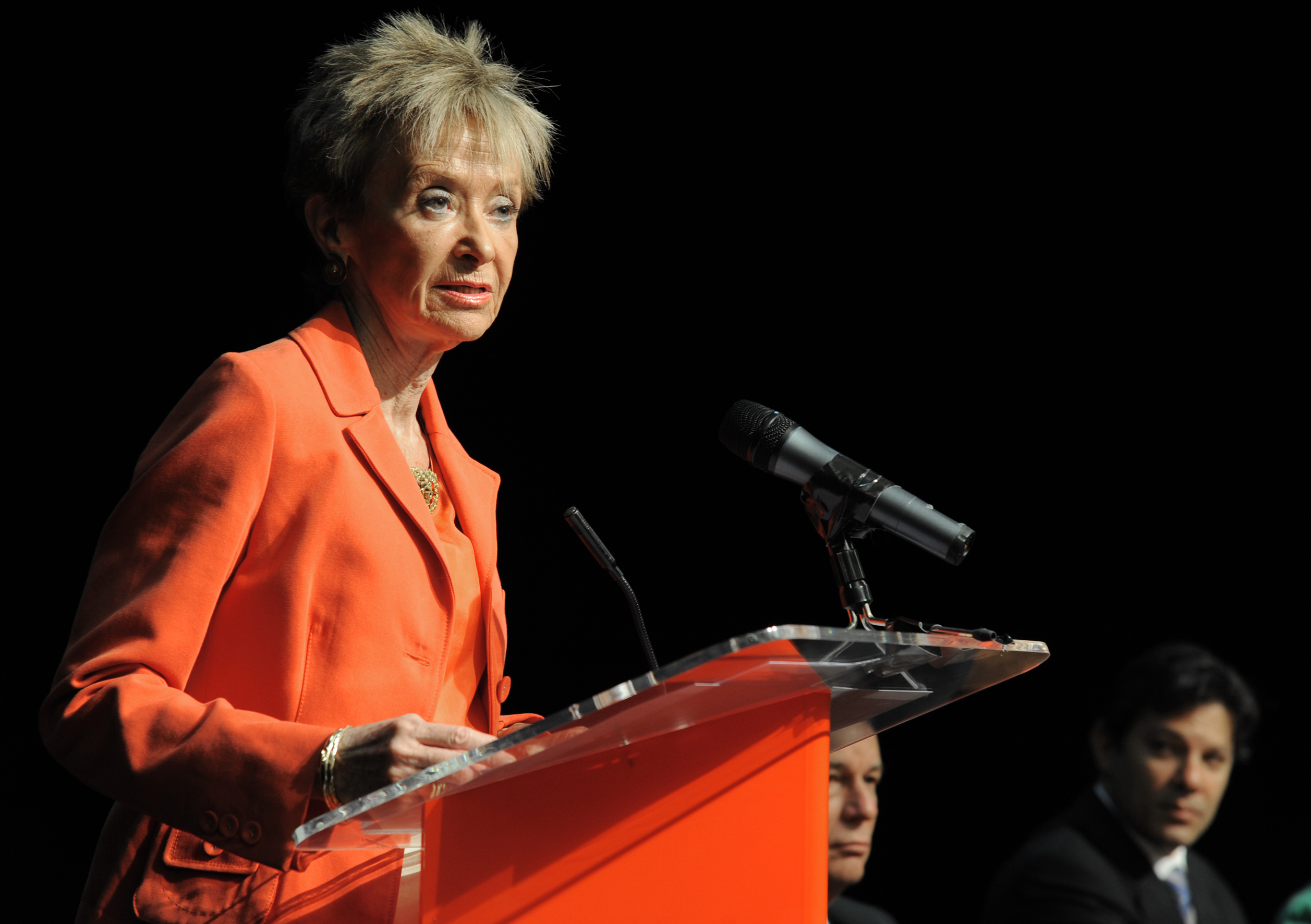 The vice-premier of the Spanish government, María Teresa Fernández de la Vega, gives a speech during the ceremony in which the Cervantes Institute signed an agreement with the Brazilian Ministry of Education in order to provide formation for Spanish teachers.